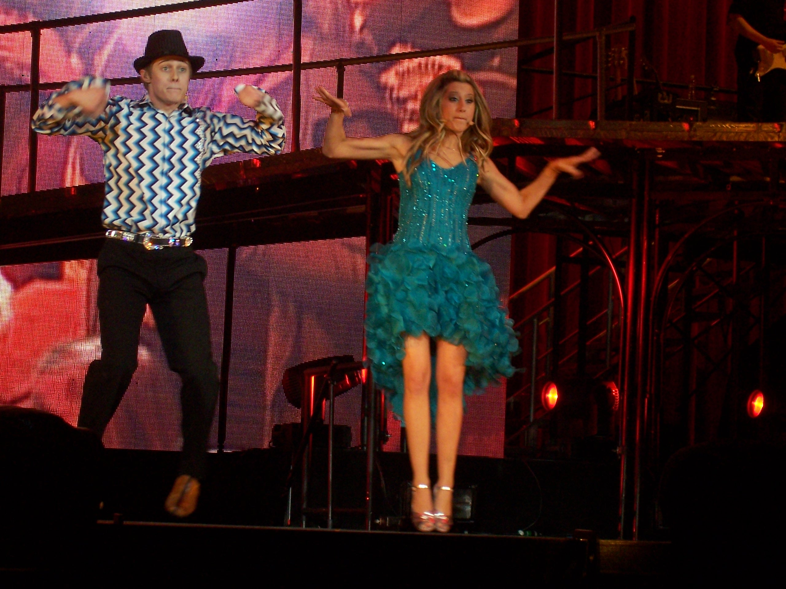 Bop to the Top